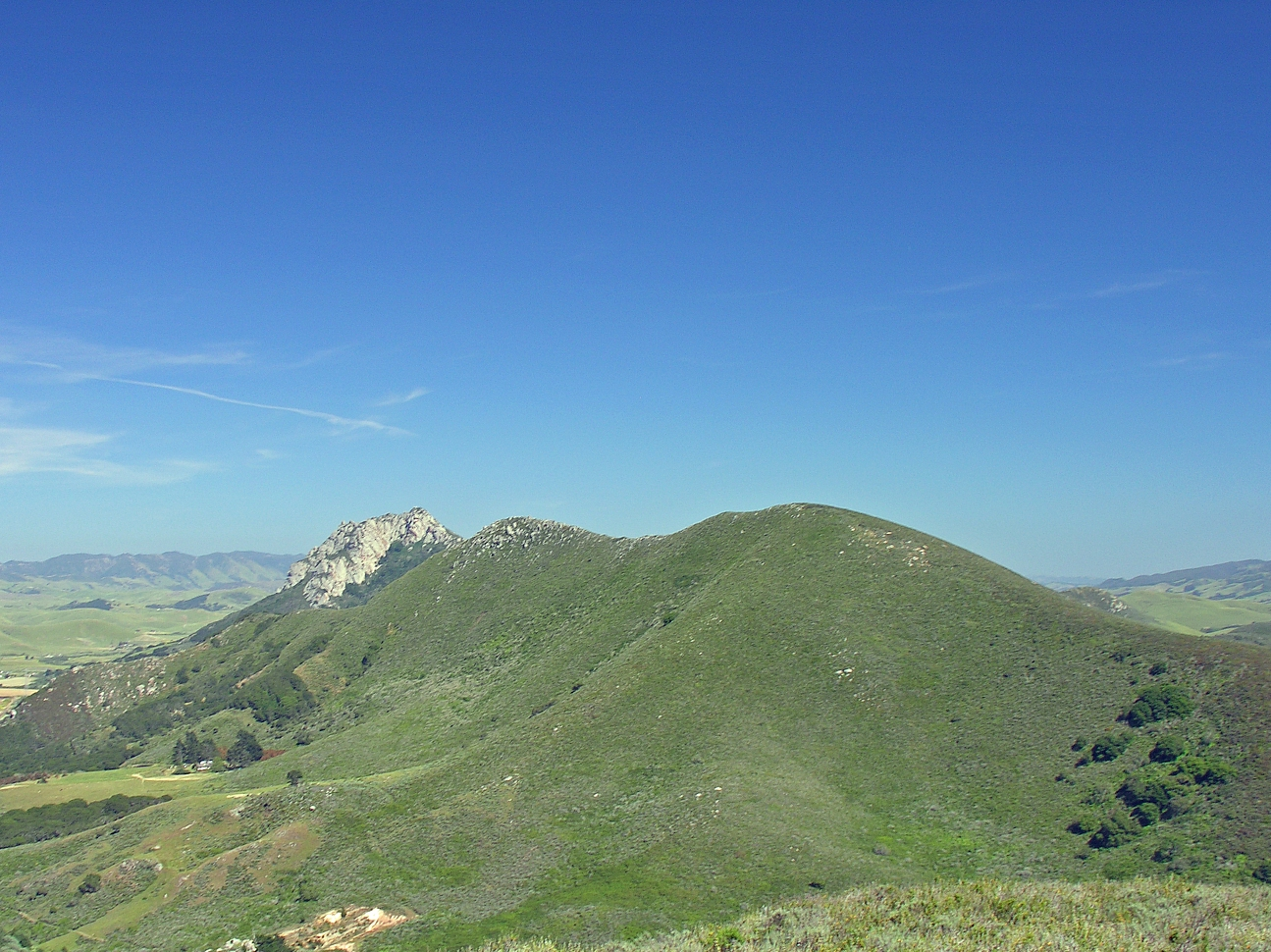 View of Cerro Cabrillo (Cabrillo Peak) — located in Morro Bay State Park, San Luis Obispo County, California. The mountain, near the city of Morro Bay, is one of the Nine Sisters, a chain of nine volcanic plugs between Morro Bay and San Luis Obispo. The rocky mountain directly behind it on left is Hollister Peak, another of the Nine Sisters. Credits The picture was taken by me on May 28, 2006. I give permission for the picture to be used with attribution under the GFDL and Creative Commons.